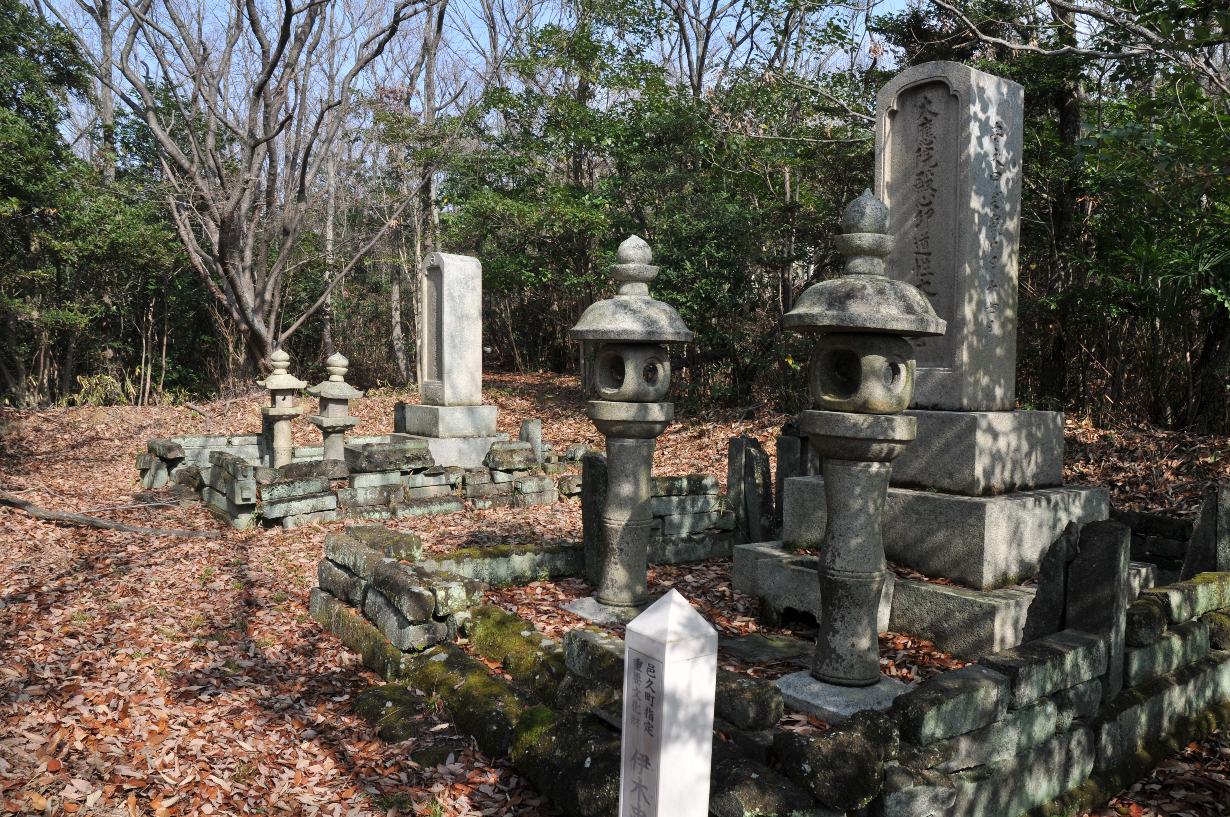 graves of Igi Tadatomo(7th family head) and his wife